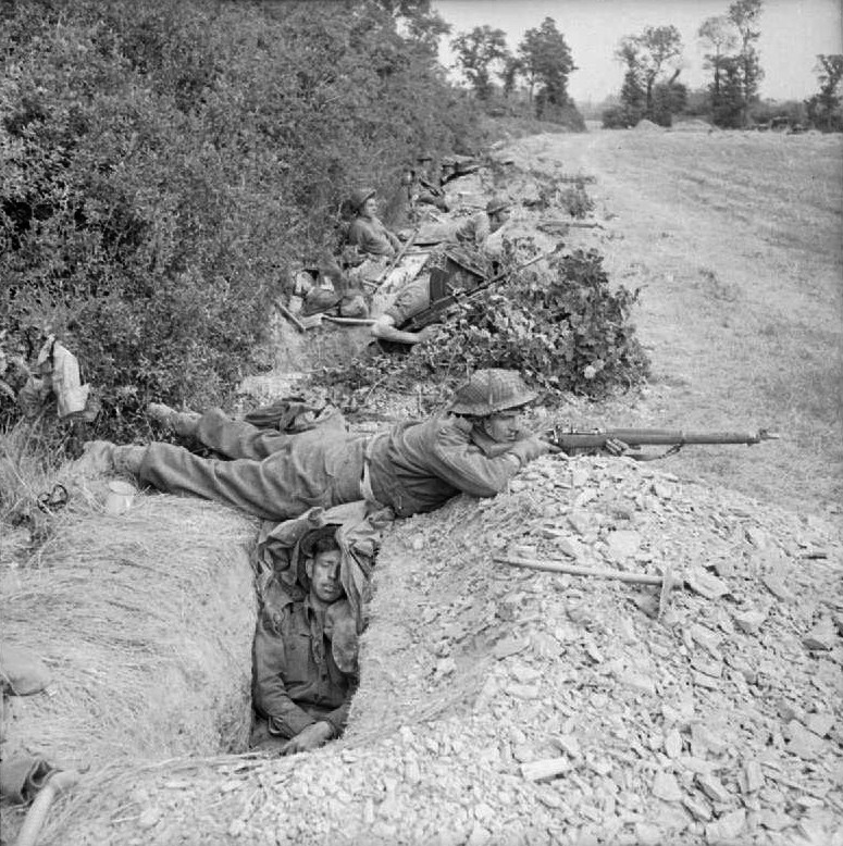 British infantry occupy slit trenches in the forward area between Hill 112 and Hill 113 in the Odon valley, 16 July 1944.